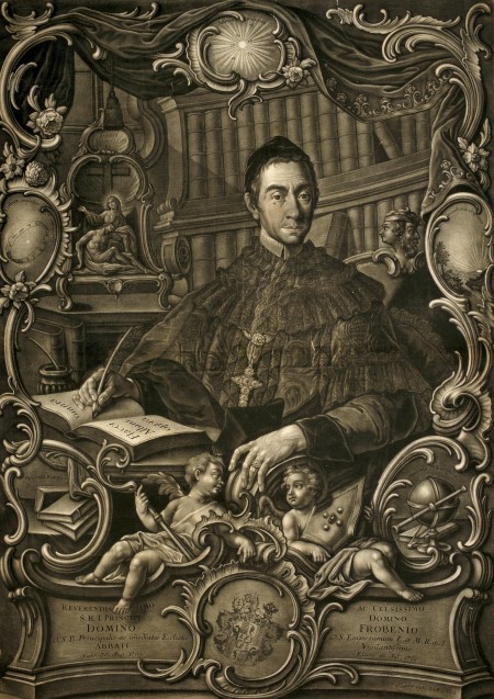 Frobenius Forster, prince-abbot of St.Emmeram's Abbey